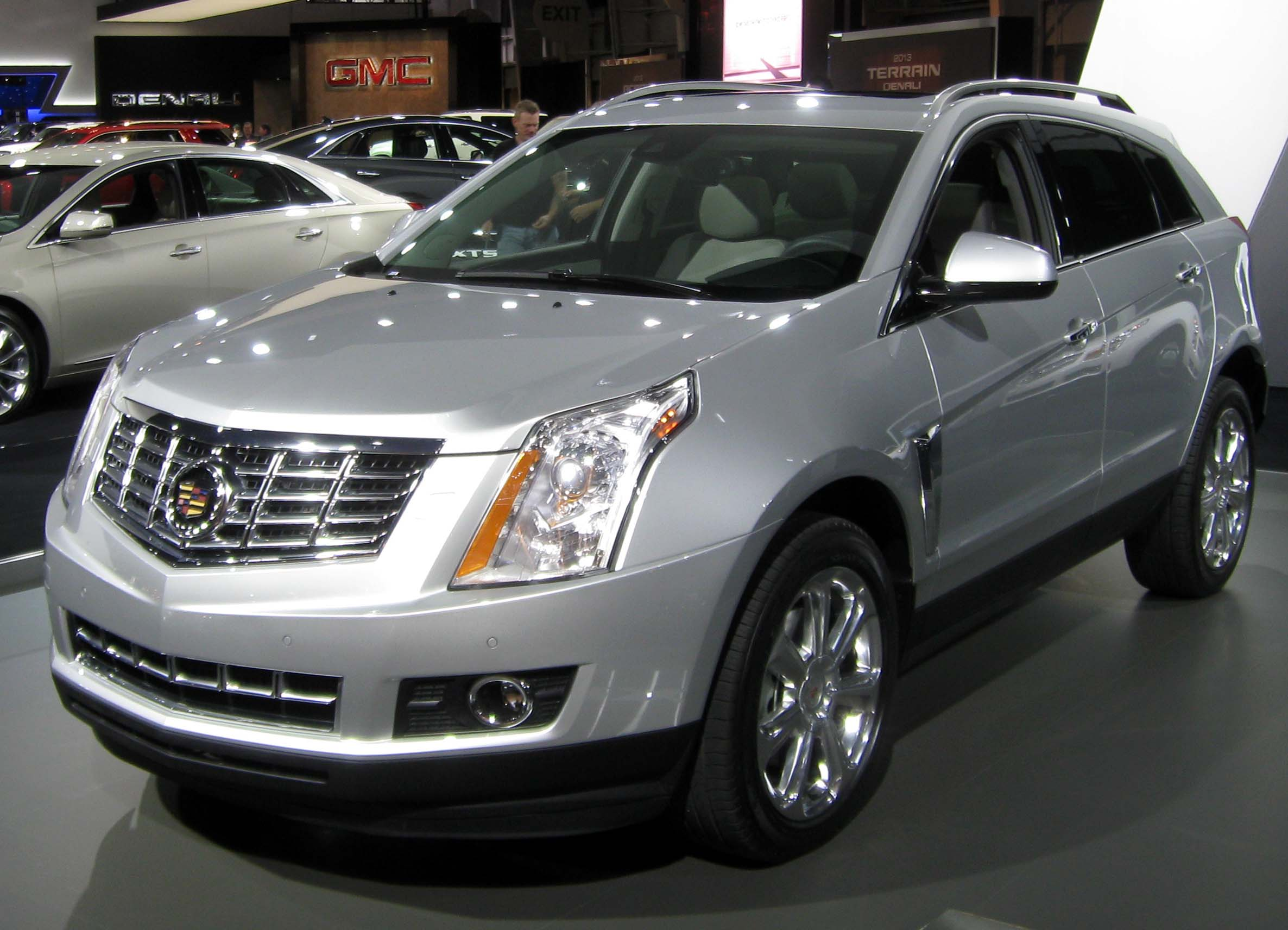 2013 Cadillac SRX photographed at the 2012 New York International Auto Show.